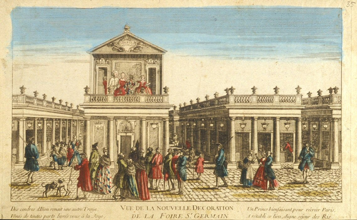 Reproduced from an original in the Binney collection of the Harvard Theatre Collection, cat. no. P1.C6.03.10 - SD532. See the source web page for additional details (in French).